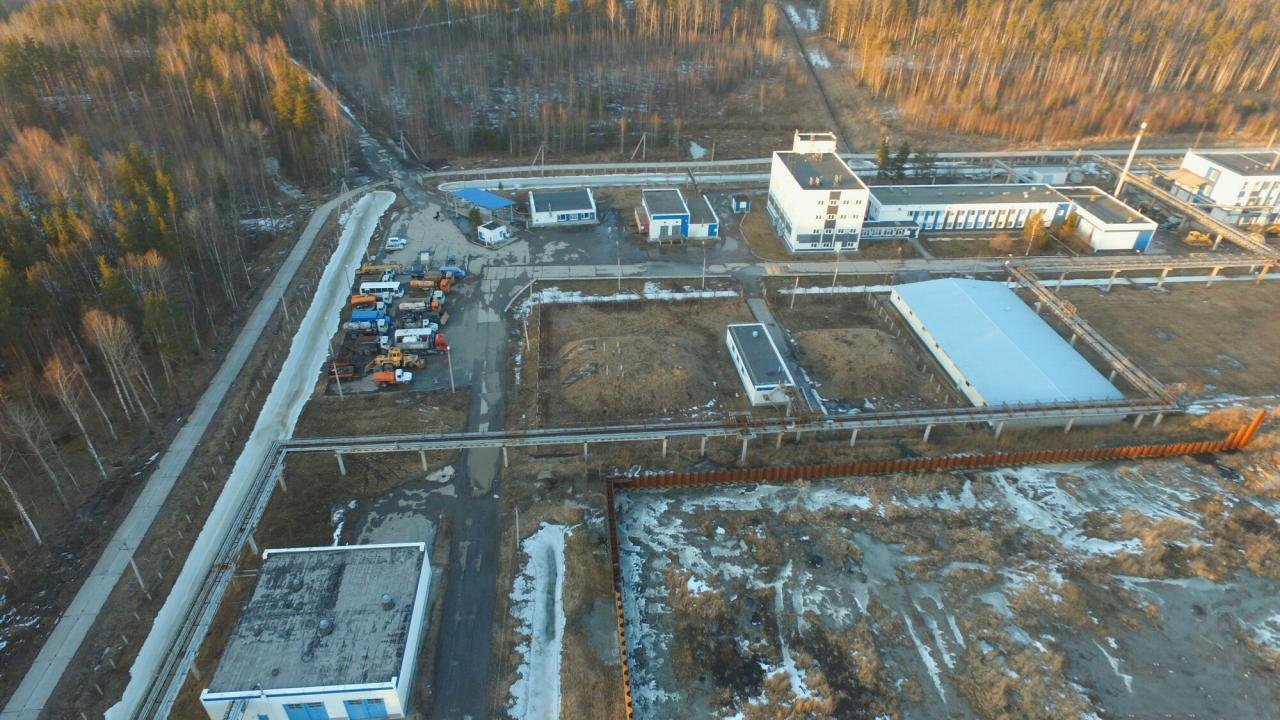 Administrative buildings and utility rooms, Krasny Bor landfill, 2015